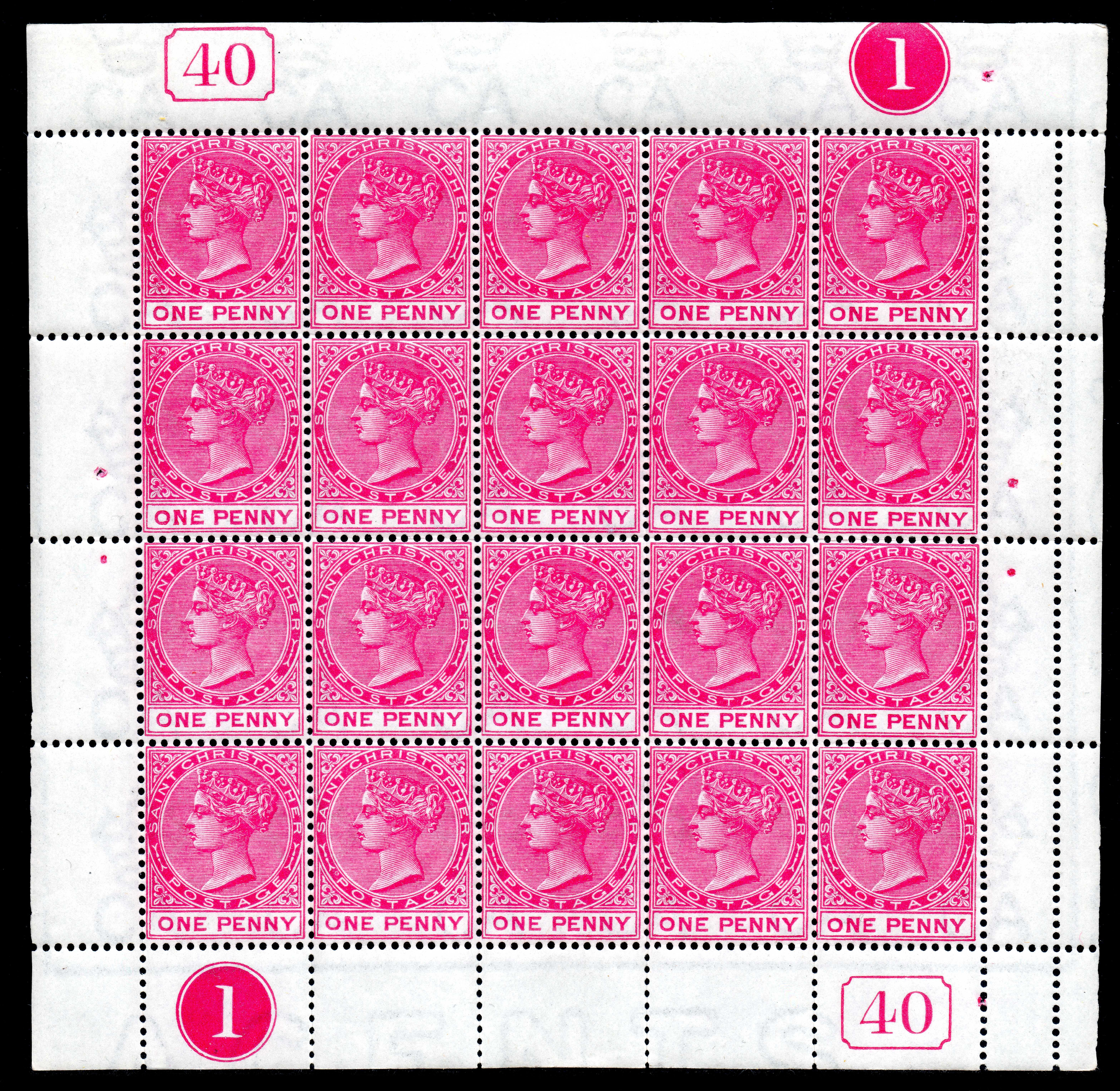 1884 - 1 Penny stamp from St. Christopher. Complete sheet. Watermark: Crown CA. Perf. 14. Printing: Typography by De La Rue. Plate 1. Serial No. 40.